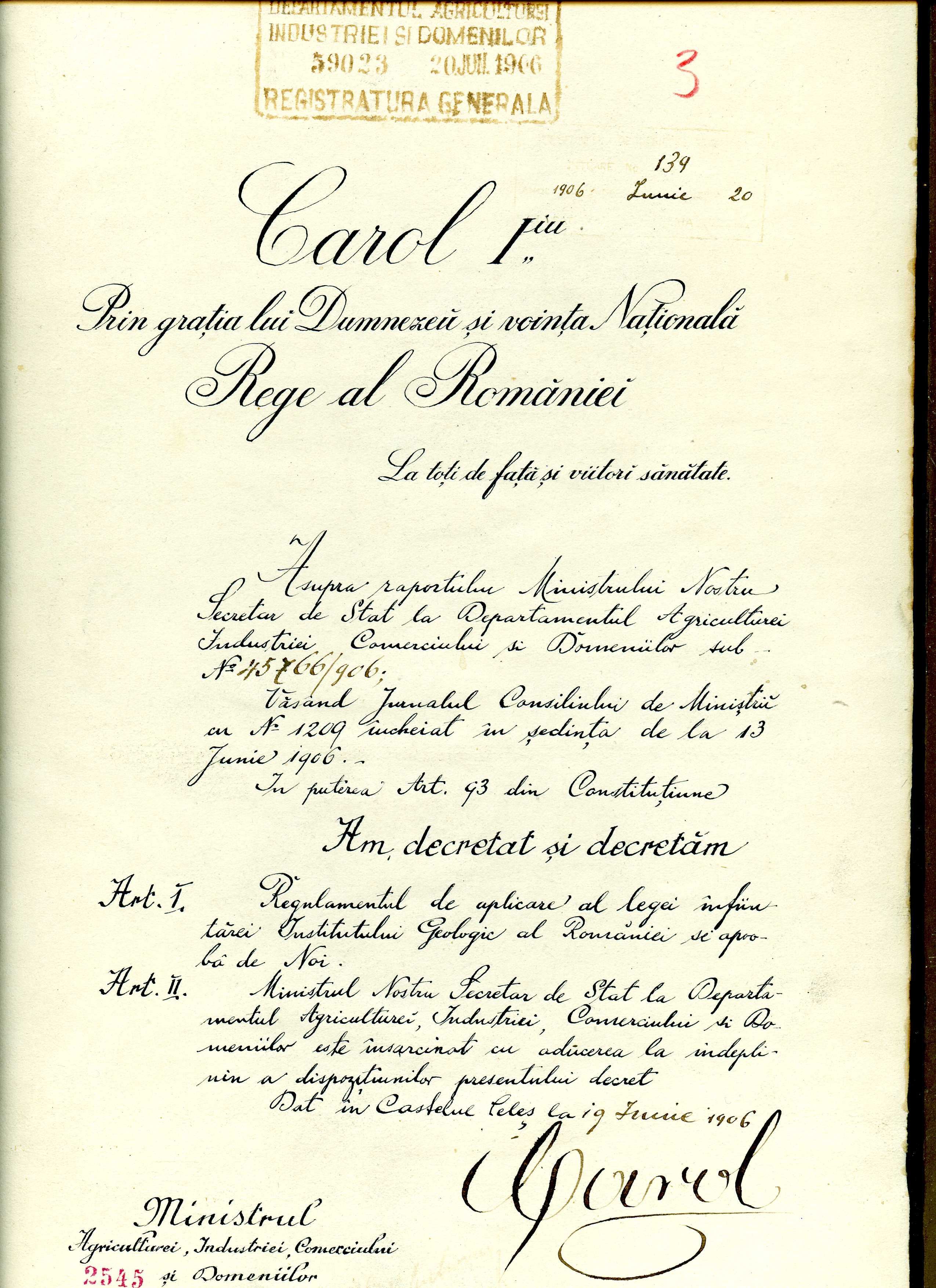 (English) Royal decree, signed by King Carol I, concerning the foundation of the Geological Institute of Romania (19 June 1906). (Română) Decret regal, semnat de Regele Carol I, privitor la înființarea Institutului Geologic al României (19 iunie 1906).